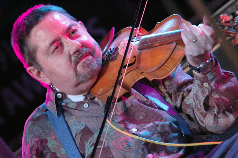 Dave Swarbrick performing on 6 February 2006